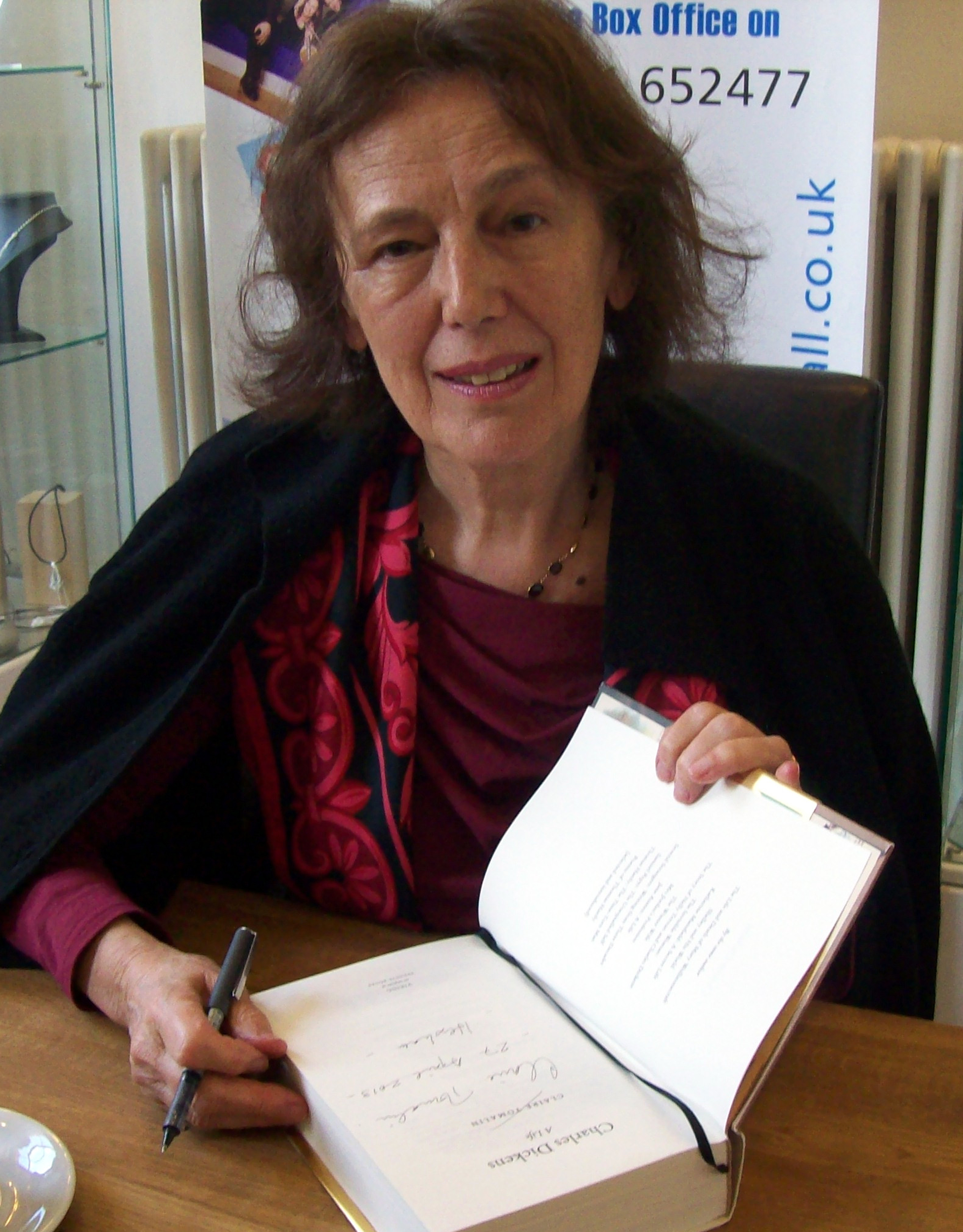 Author Claire Tomalin signing a copy of her Charles Dickens biography at the Hexham Book Festival, April 27, 2013